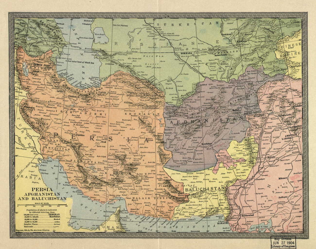 Old map of Persia, Afghanistan and Baluchistan.